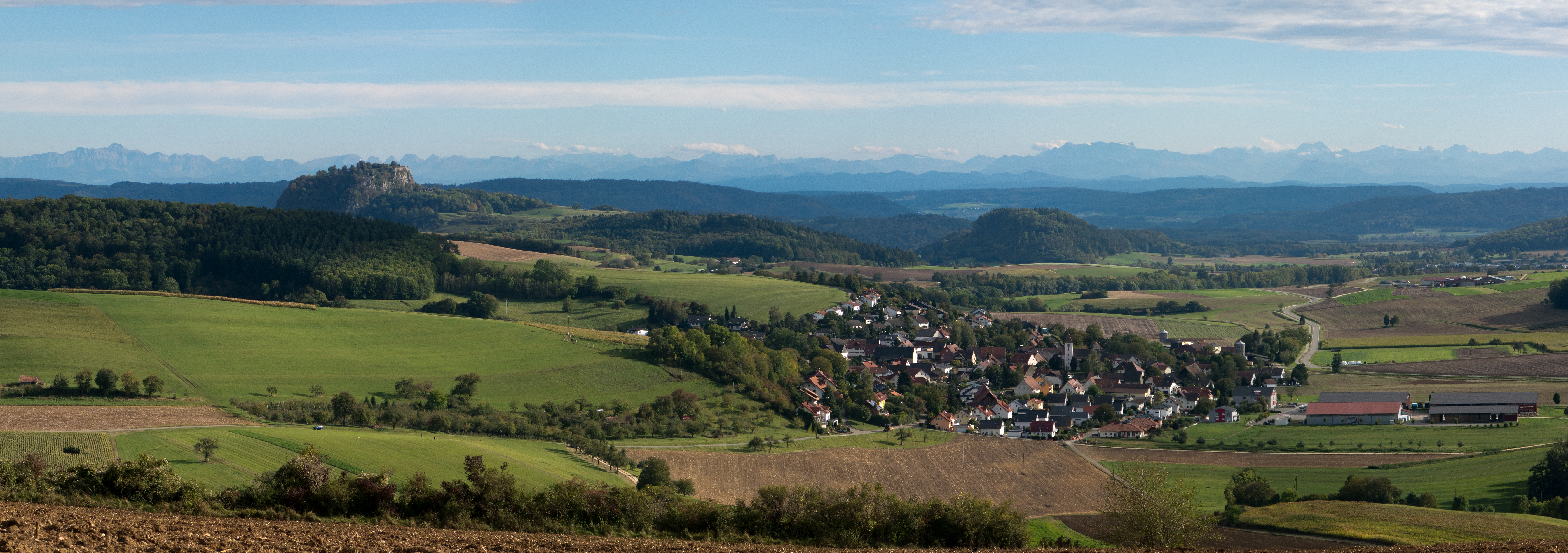 Duchtlingen near Hilzingen in the Hegau, Baden-Württemberg, Germany